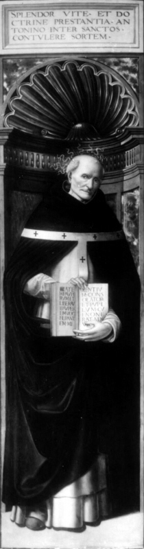 'Saint Antoninus Pierozzi (Saint Antoninus of Florence), by Domenico Ghirlandaio, ca. 1494. The piece was part of the Tornabuoni Altarpiece. The painting was destroyed or disappeared in Berlin in May 1945, in the Friedrichshain flak tower fire. - Dimensions: 206 x 55 cm